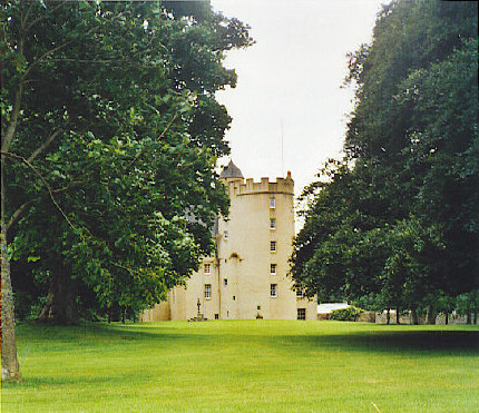 Midmar Castle. Midmar Castle, taken from the west. Midmar is one of the famous castles of Mar, superb examples of Scottish castle building, with many examples of corbelling, crow-stepped gables, round towers, etc. It is now in private hands but may be glimpsed by walkers heading to and from the Hill o'Fare.